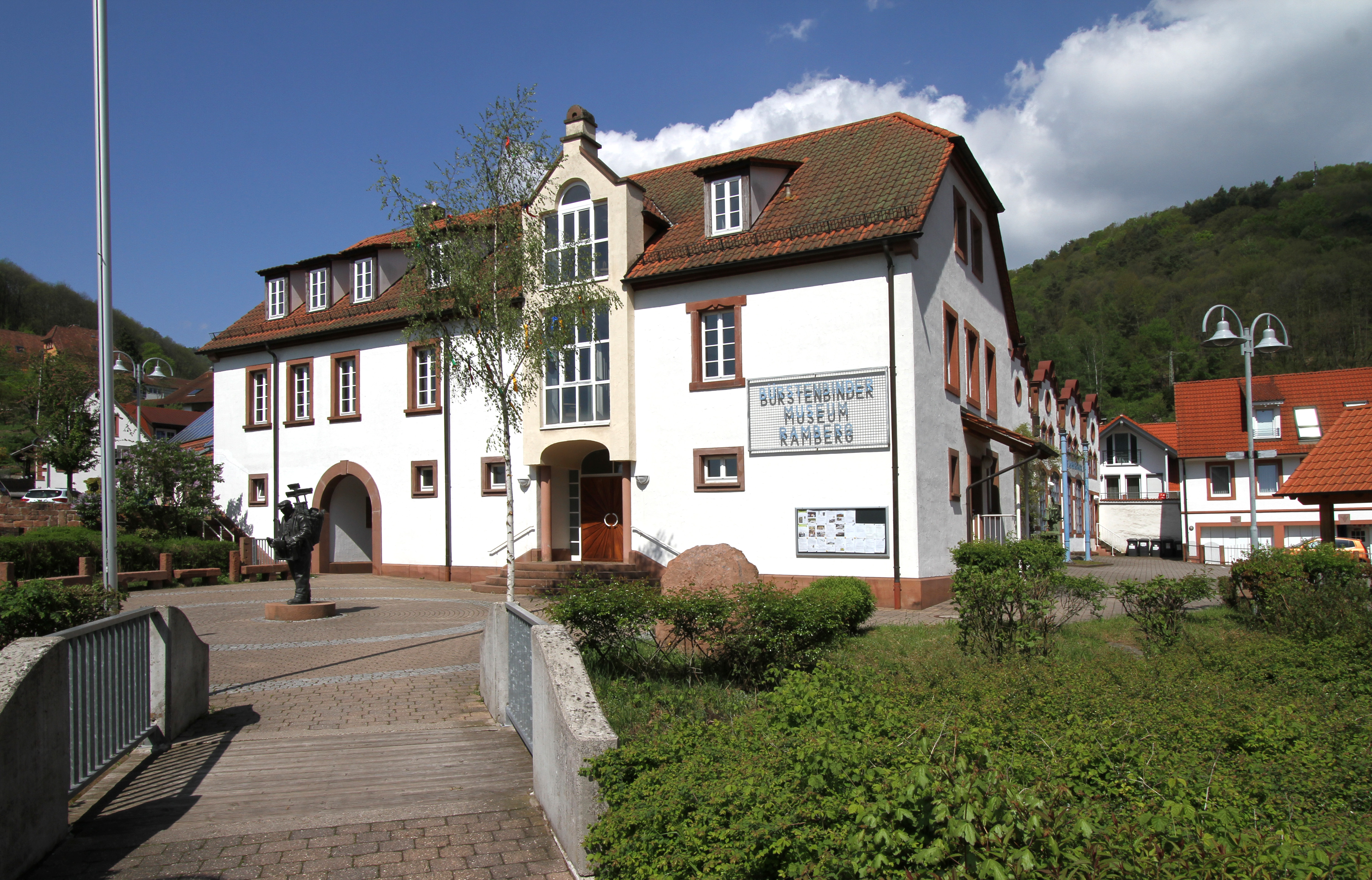 Brushmaker's Museum in Ramberg.